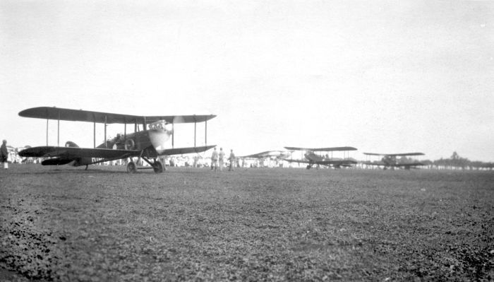 Repronegatief. Arrival of Fokker VII on the airfield Tjililitan near Batavia after the first flight from the netherlands to india (remark: Dutch-East-India), Java (remark: the aircraft is apparently Airco DH-9 bomber)